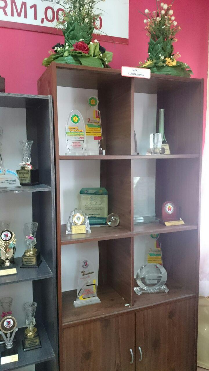 sireh junjung